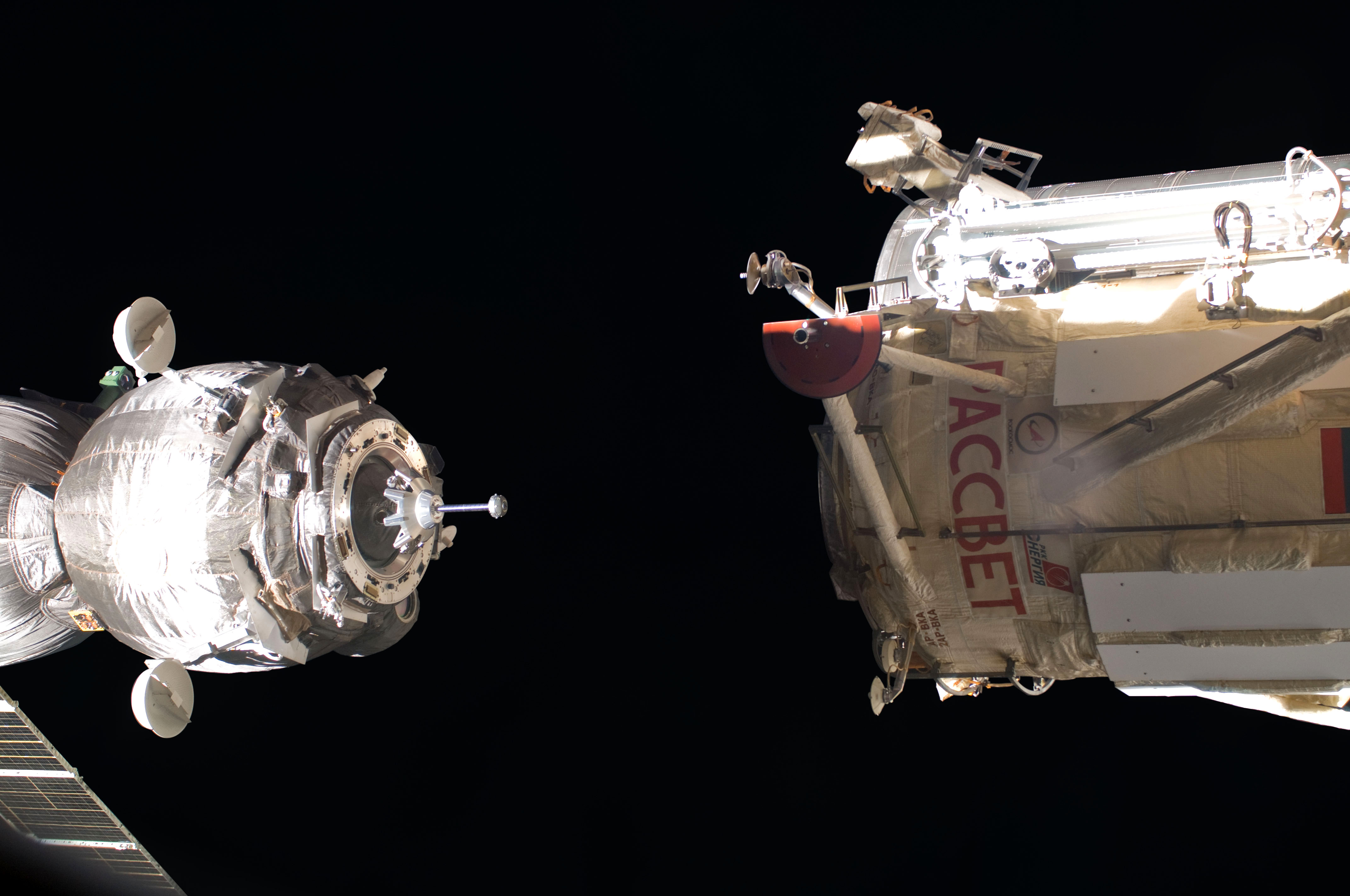 With the three Expedition 30/31 crew members aboard, the Soyuz TMA-03M spacecraft (left) eases toward its docking with the Russian-built Mini-Research Module 1 (MRM-1), also known as Rassvet, Russian for "dawn." The docking, which once more enables six astronauts and cosmonauts to work together aboard the Earth-orbiting International Space Station, took place at 9:19 a.m. (CST) on Dec. 23, 2011.